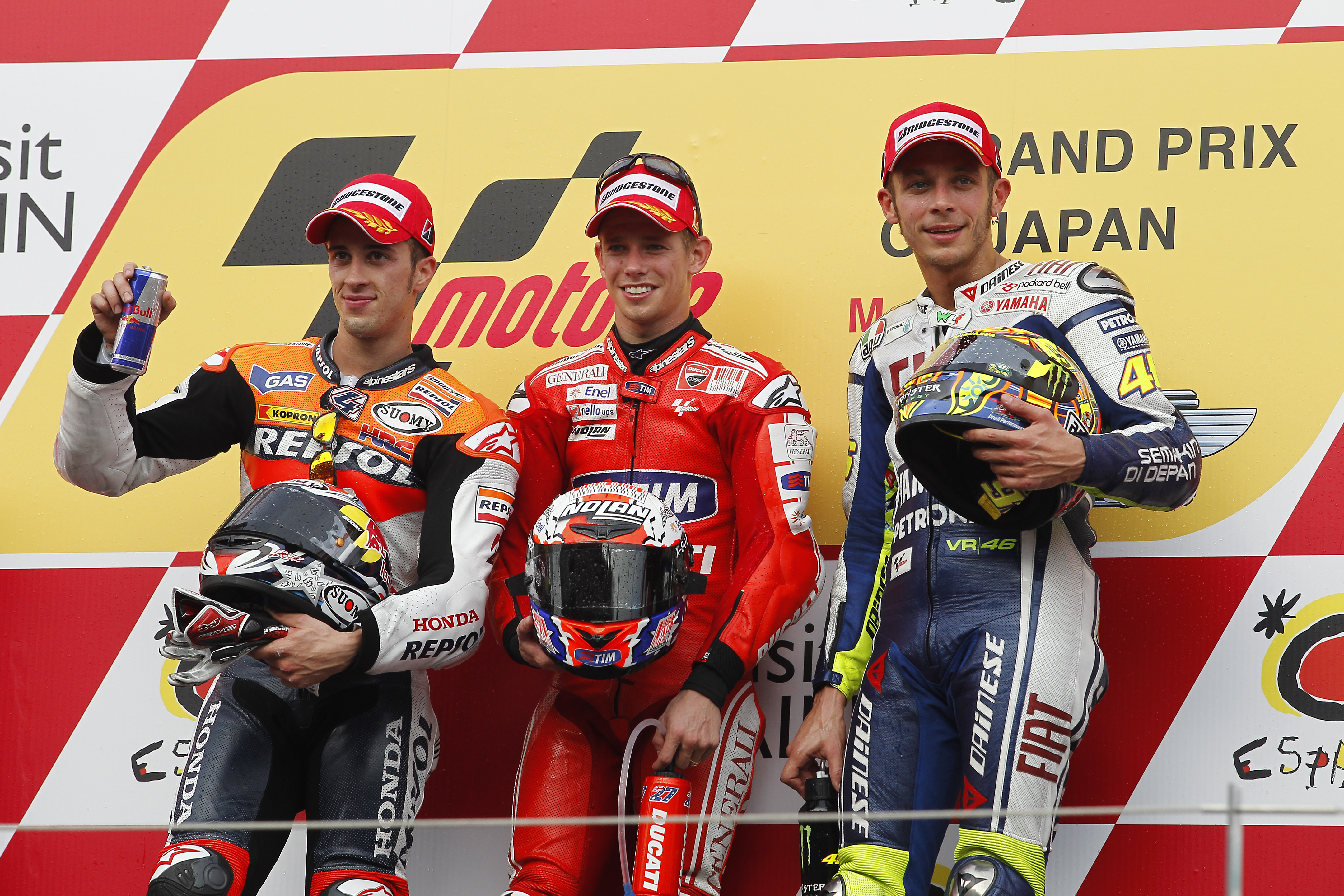 Andrea Dovizioso, Casey Stoner and Valentino Rossi, posing for a photo on the podium after finishing in second, first and third at the 2010 Japanese Grand Prix.